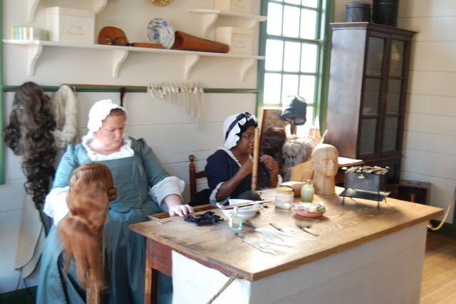 Wigmakers reenacting their historical craft in Colonial Williamsburg, Virginia.